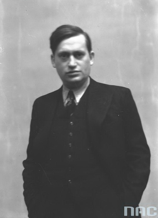 Stanisław Mackiewicz (1896-1966) - a polish journalist